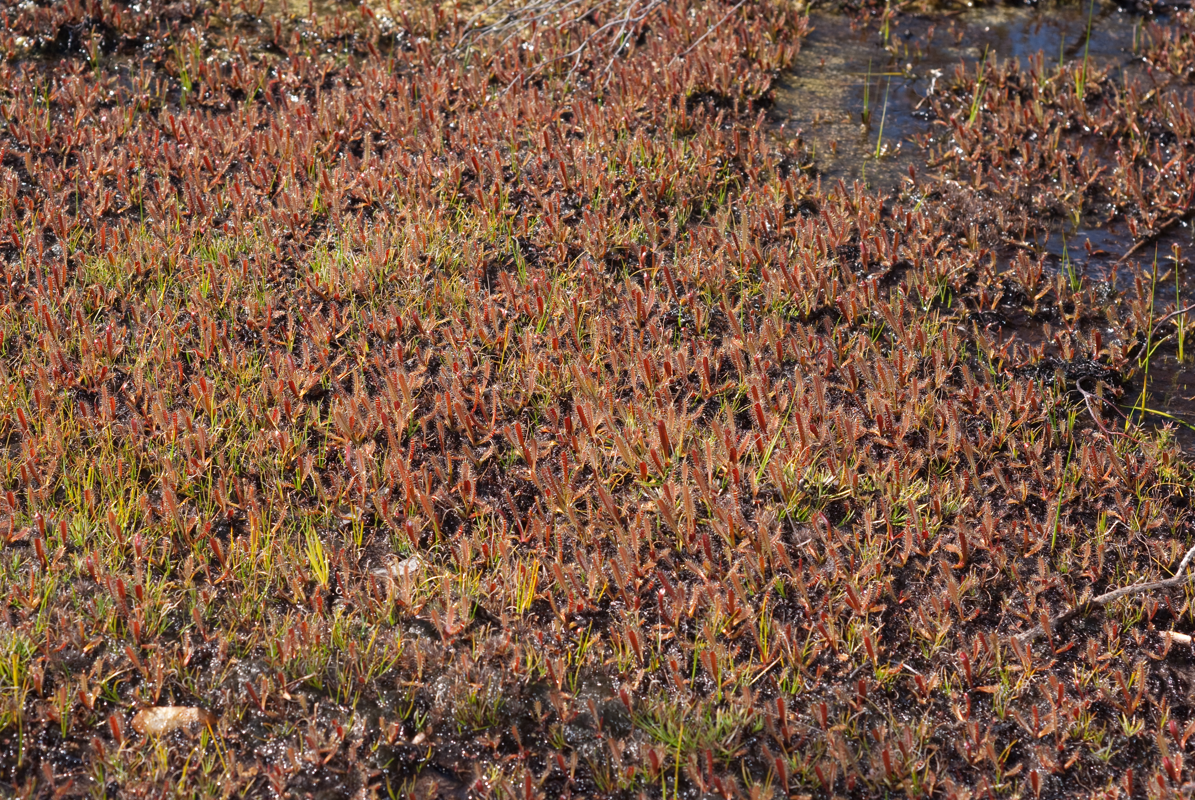 A population of the lowland form of Drosera arcturi growing in slow-moving water in a shallow creek, near Lake Pedder, Tasmania. Photographed 02-Nov-2009